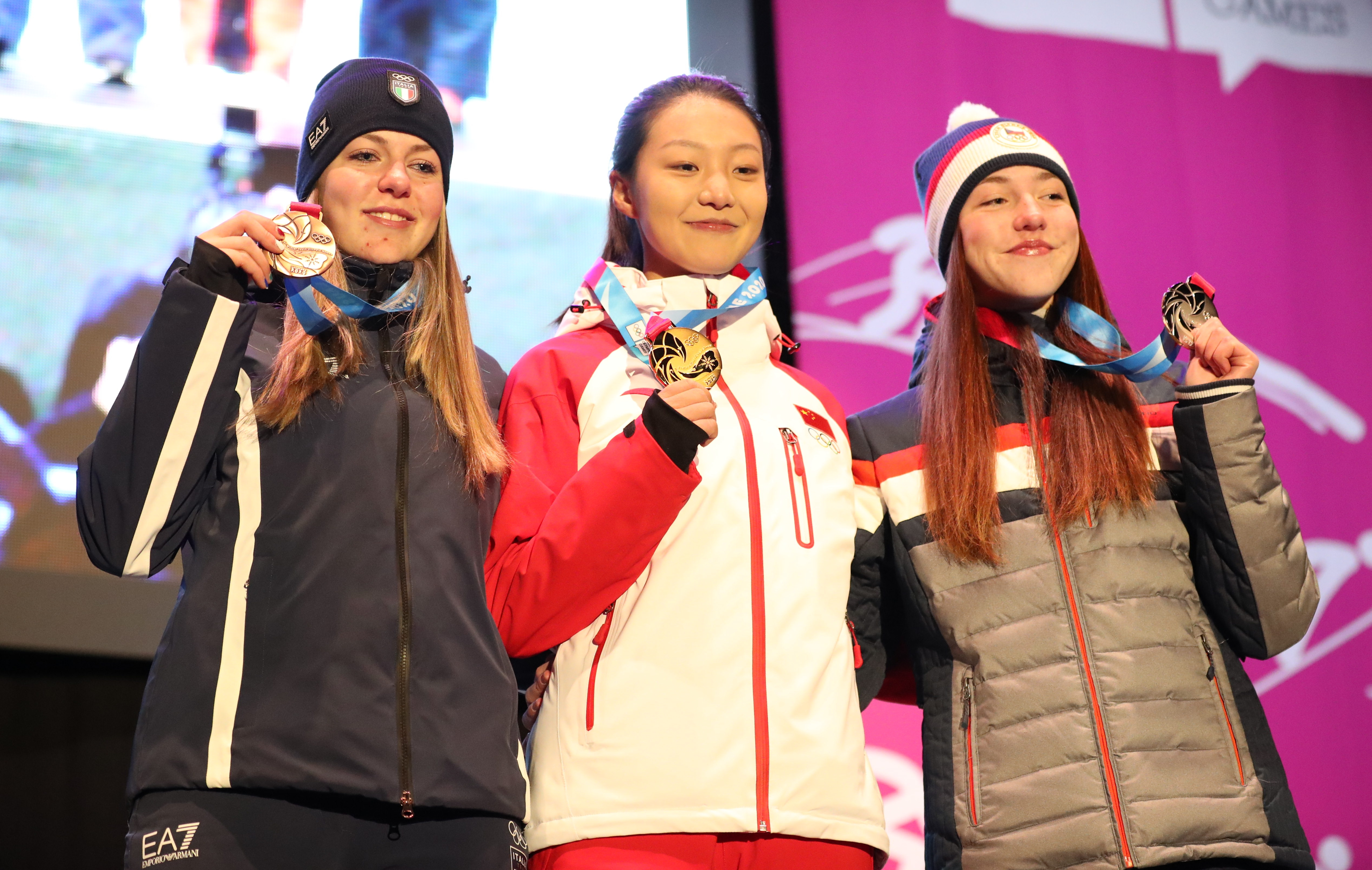 Medal Ceremony Day 7 in St. Moritz, 2020 Winter Youth Olympics in Lausanne